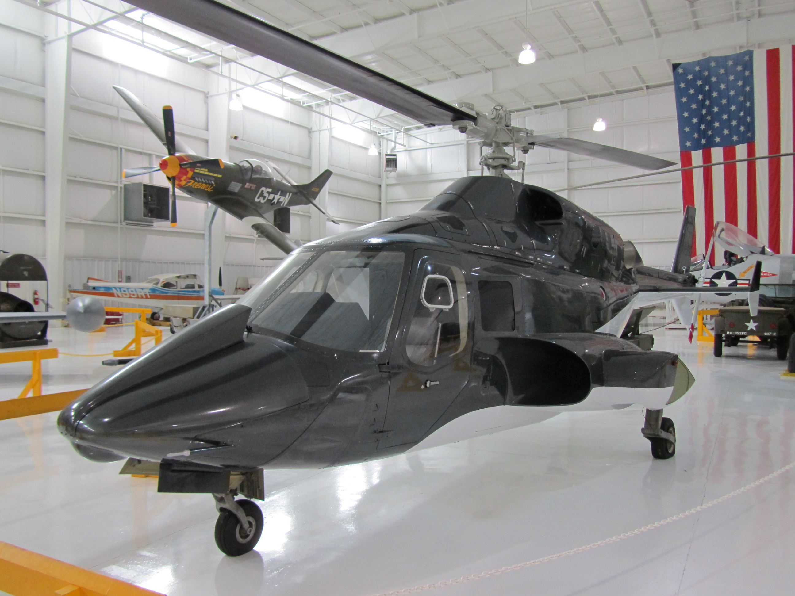 Full-size replica of the Airwolf , Tennessee Museum of Aviation, Sevierville, Tennessee